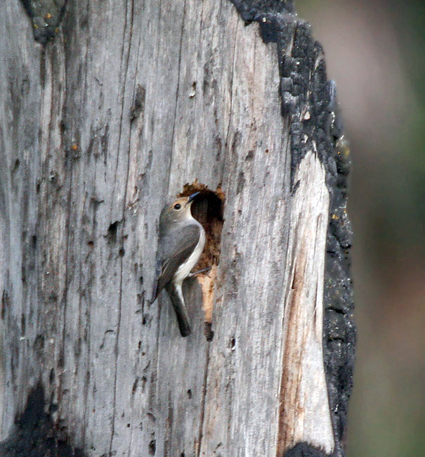 Ultramarine Flycatcher Ficedula superciliaris in Kullu District of Himachal Pradesh, India.